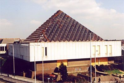 A view of the dolphin center Romford early 2000s